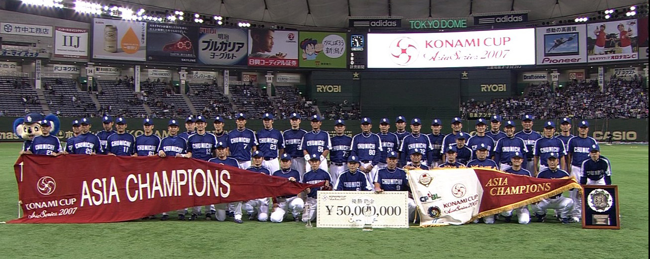 Konami Cup 2007 Asia Series Champions Chunichi Dragons